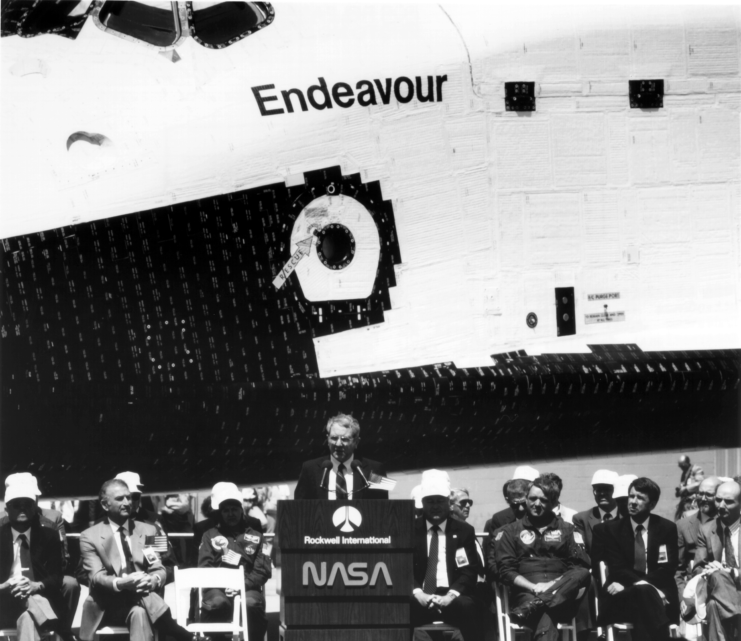 NASA Administrator Richard H. Truly addresses the audience in attendance at the rollout ceremonies of the Space Shuttle Orbiter Endeavour which occurred on April 25, 1991, at the Rockwell International facility, Palmdale, Calif. Endeavour, the fifth Orbiter to join the active fleet, replacing the lost Challenger, can be seen in the background.